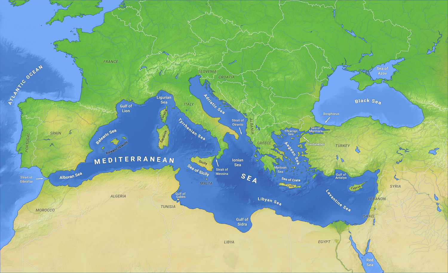 Map of the Mediterranean Sea with subdivisions, straits, islands and countries